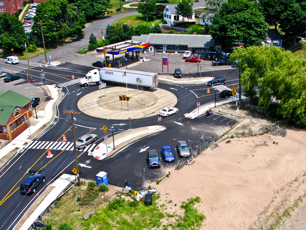 Kite aerial photo of the new rotary at the intersection of Jones Hill Road and Ocean Ave.